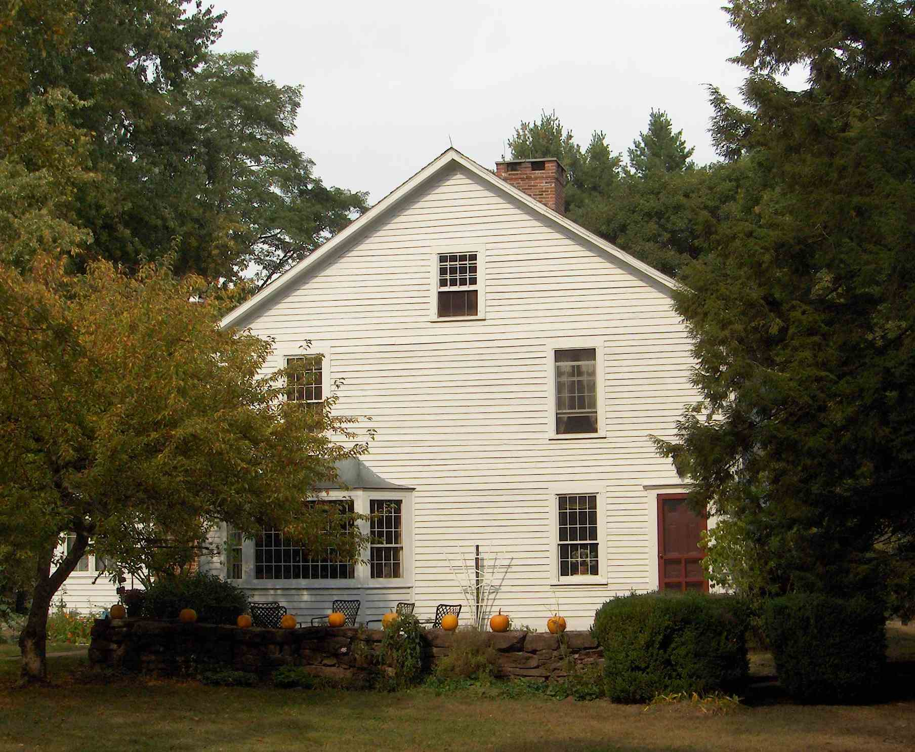 JOHN TERRY HOUSE, c. 1780 an 18th century house in Terry's Plain Historic District in Simsbury CT USA